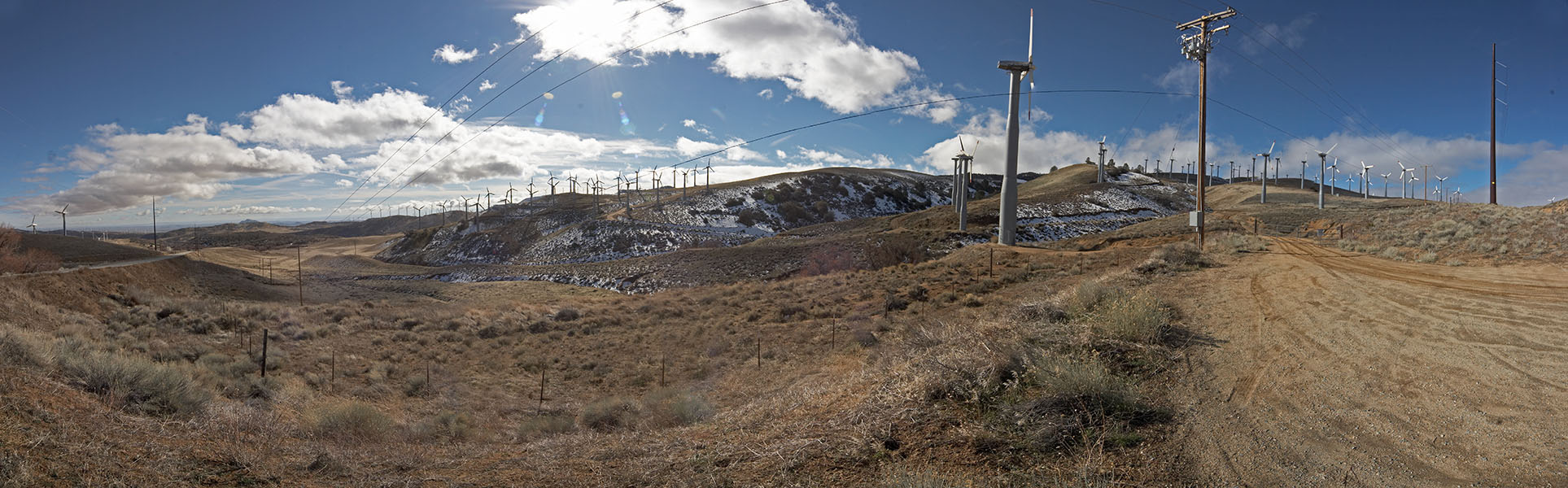 Panoramic image of the windfarm at Tehachapi, CA, by Roger Howard ; more images at